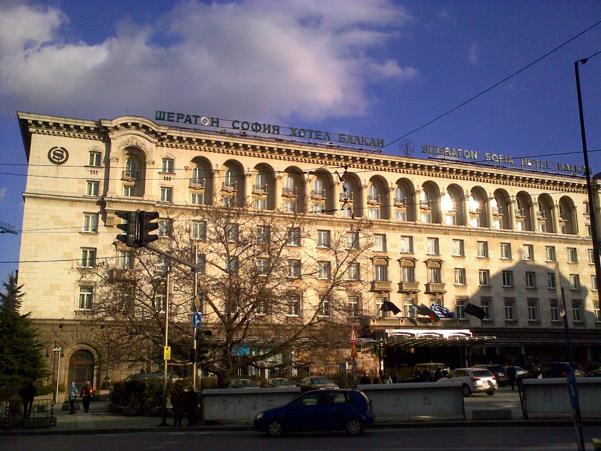 Sofia: Sheraton Hotel, part of the Largo-complex